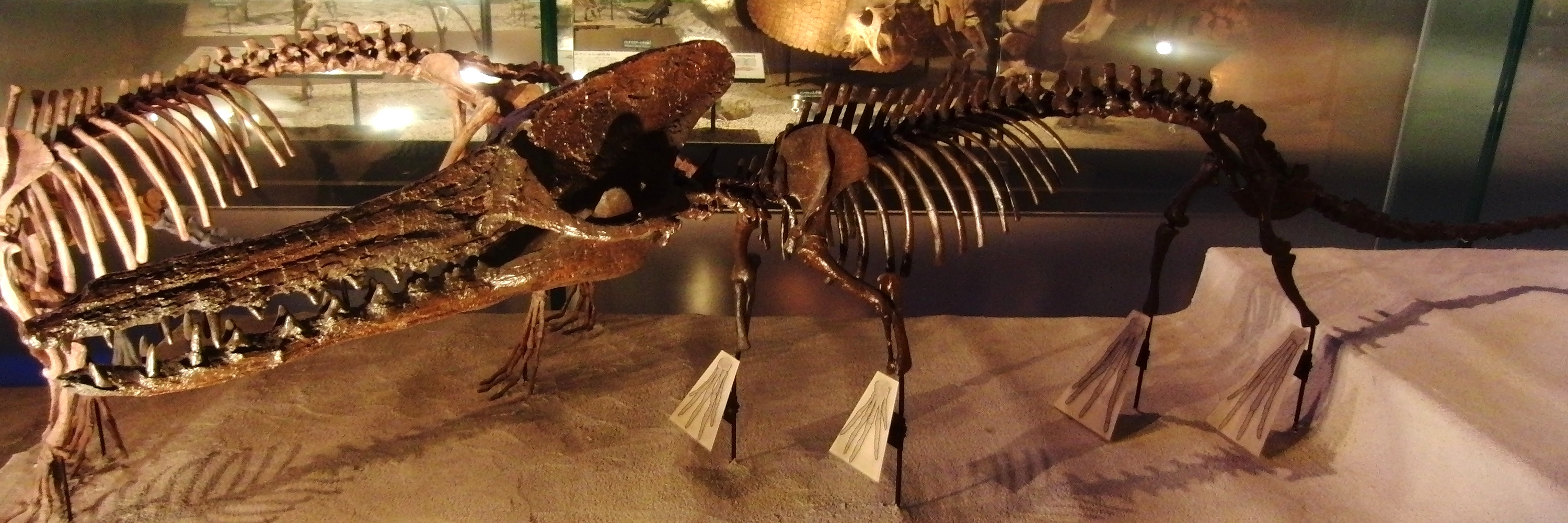 Skelton of Kutchicetus minimus. Exhibit in the National Museum of Nature and Science, Tokyo, Japan.